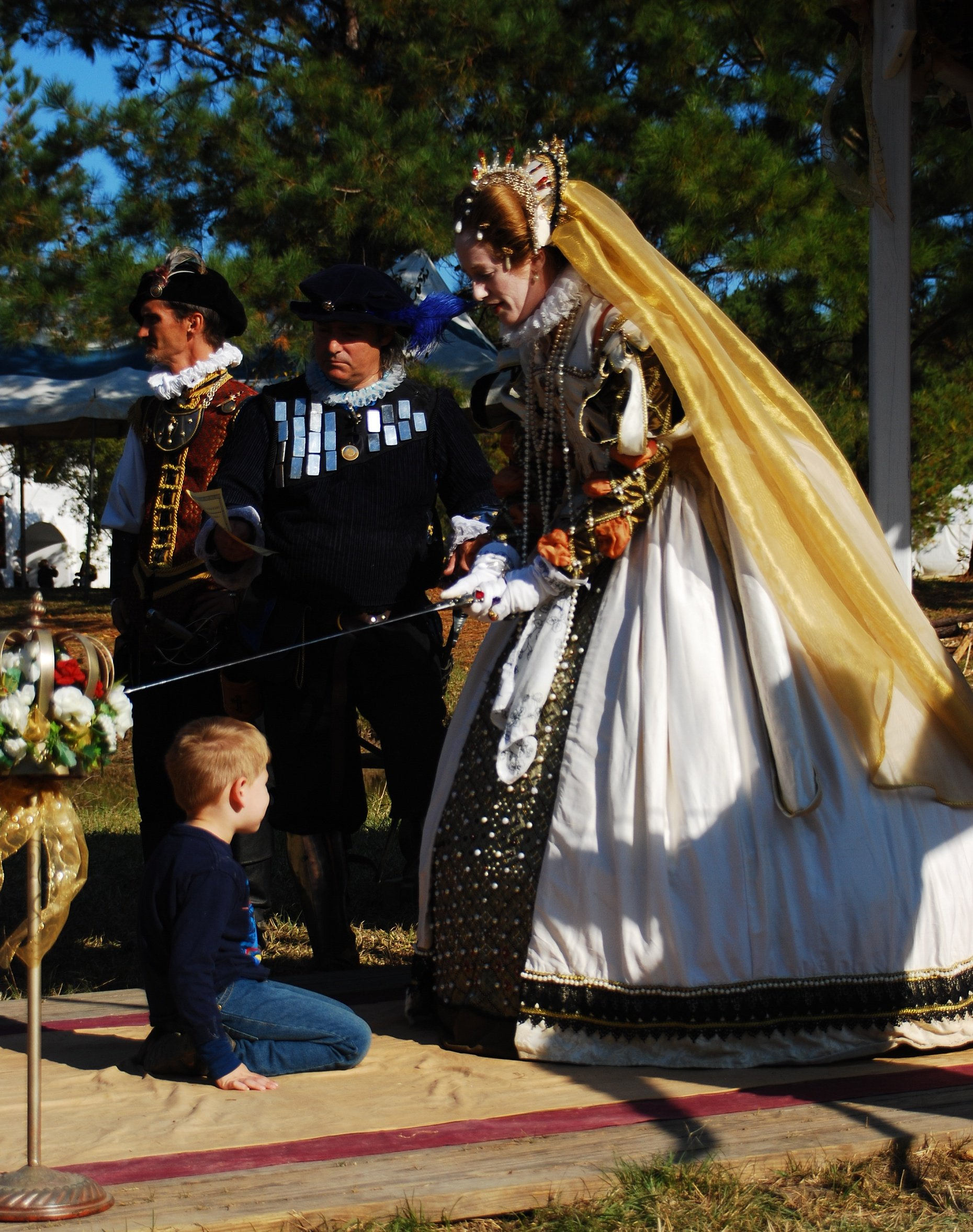 Knighting Ceremony, Queen Elizabeth the First, Village of Albright, Louisiana Renaissance Festival, Hammond, Louisiana.